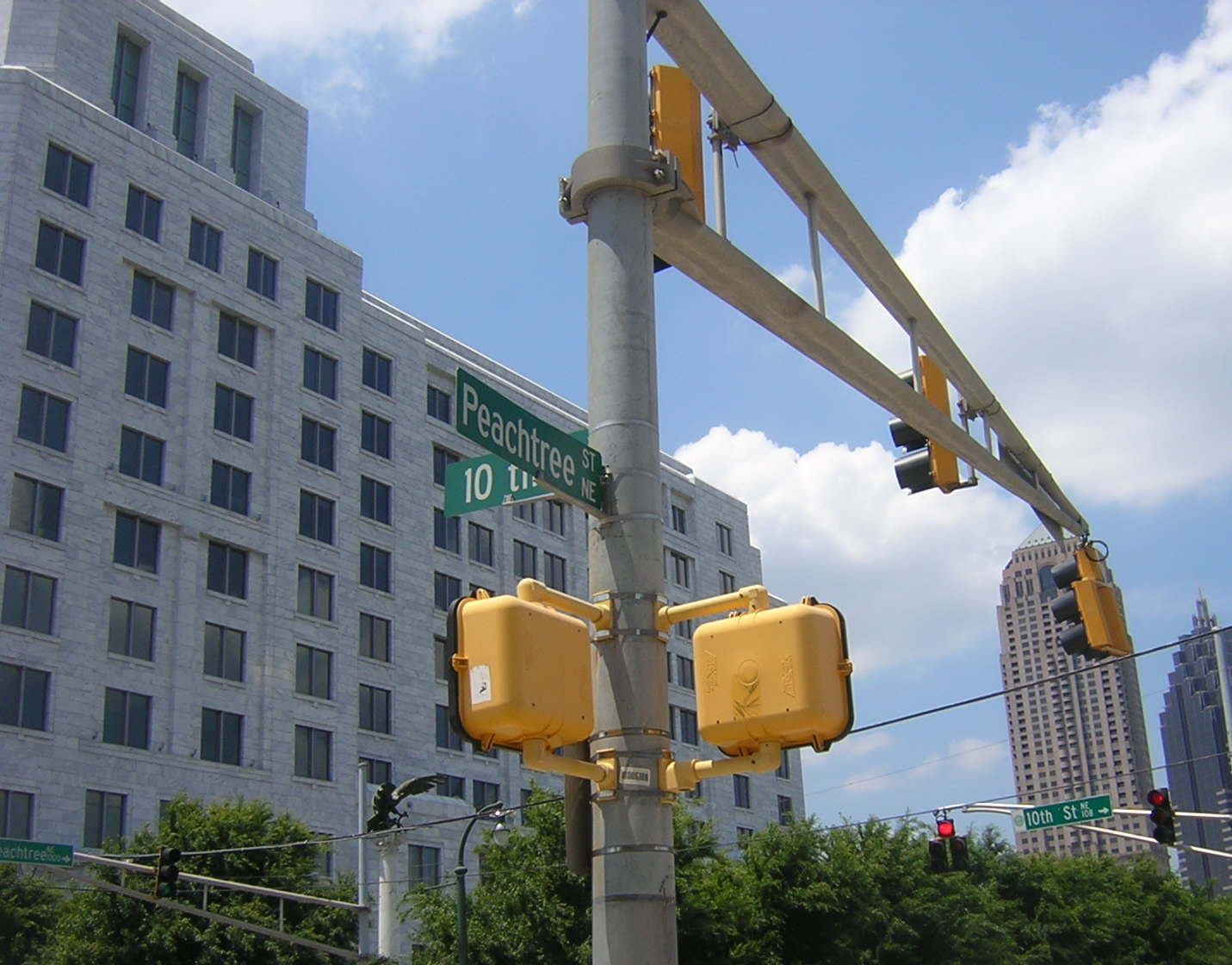 Signs at 10th Street and Peachtree St. intersection, with Federal Reserve Bank of Atlanta in background